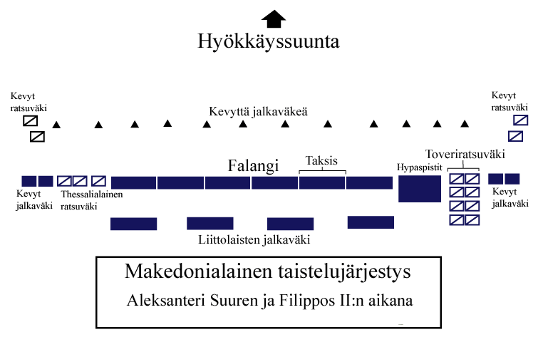 Macedonian battle formation during Alexander and Philip